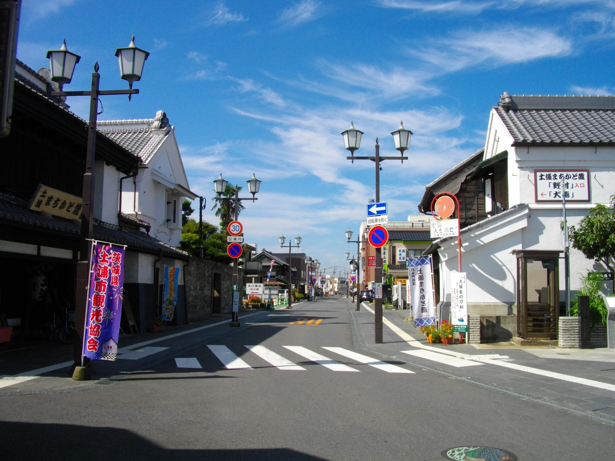 Tsuchiura-shuku